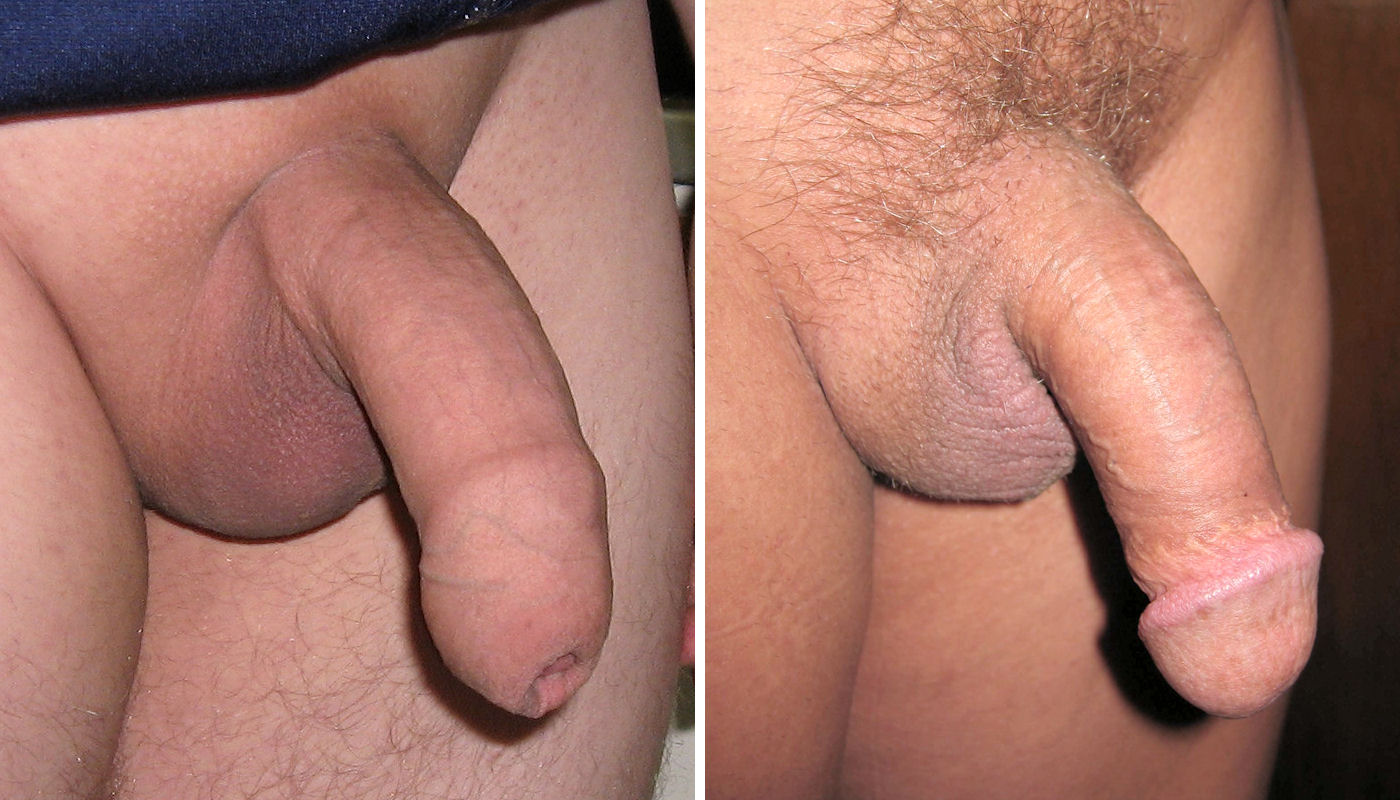 Uncircumcised and circumcised penis. Original image of the circumsiced penis